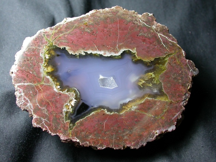 A fine thunderegg from the Black Rock Desert in Nevada